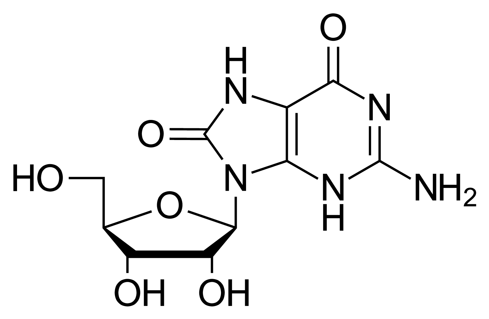 chemical structure of 8-hydroxyguanosine (oxoguanosine)